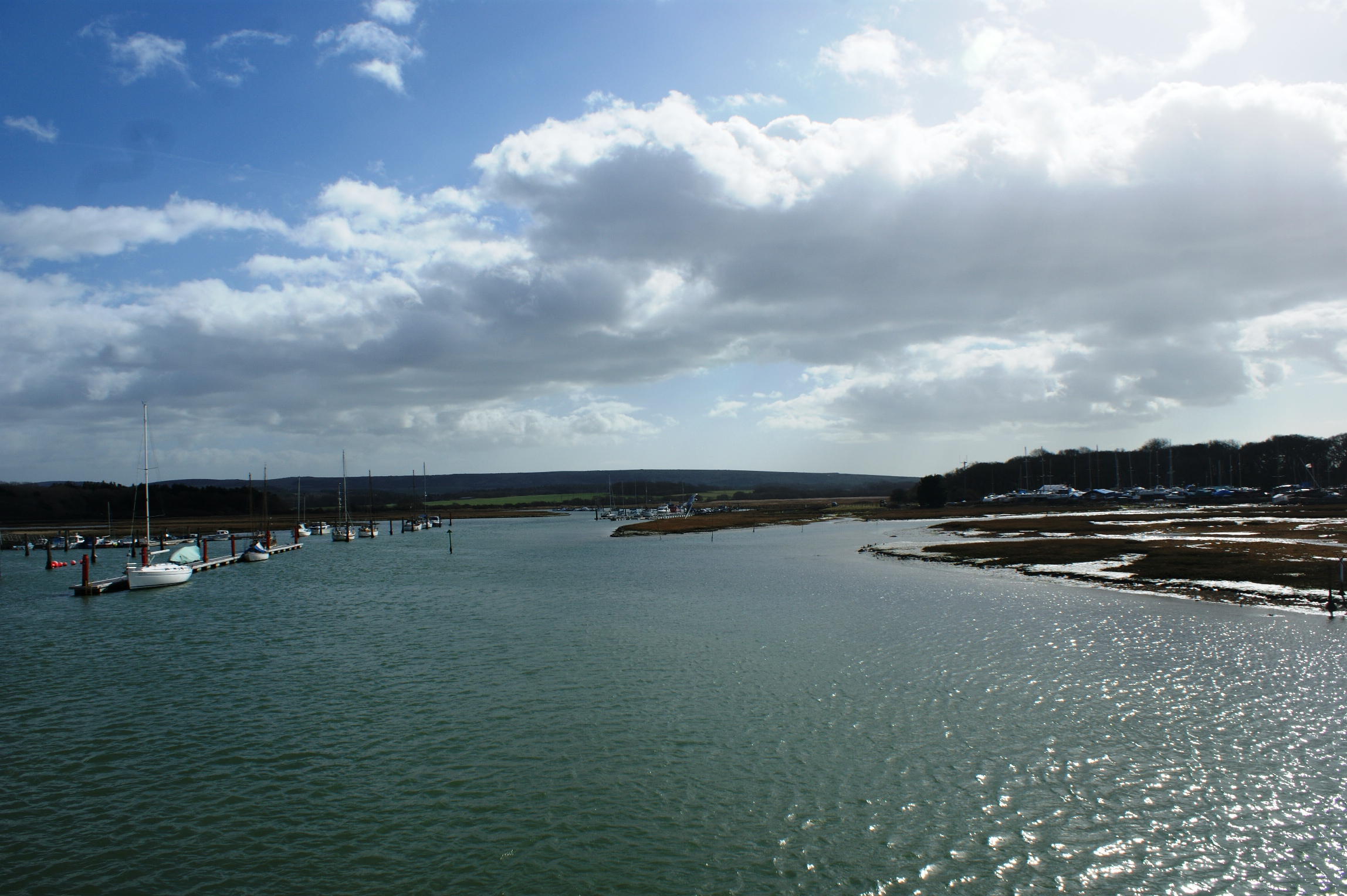 The Western Yar as seen from the bridge at Yarmouth on the Isle of Wight.